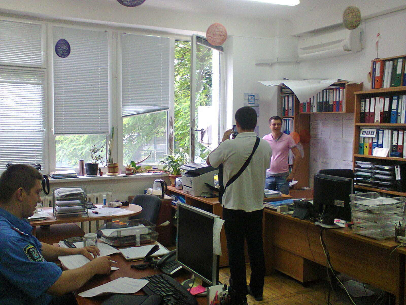 Investigative activities at crime cite (burglary and larceny). Kiev. Ukraine